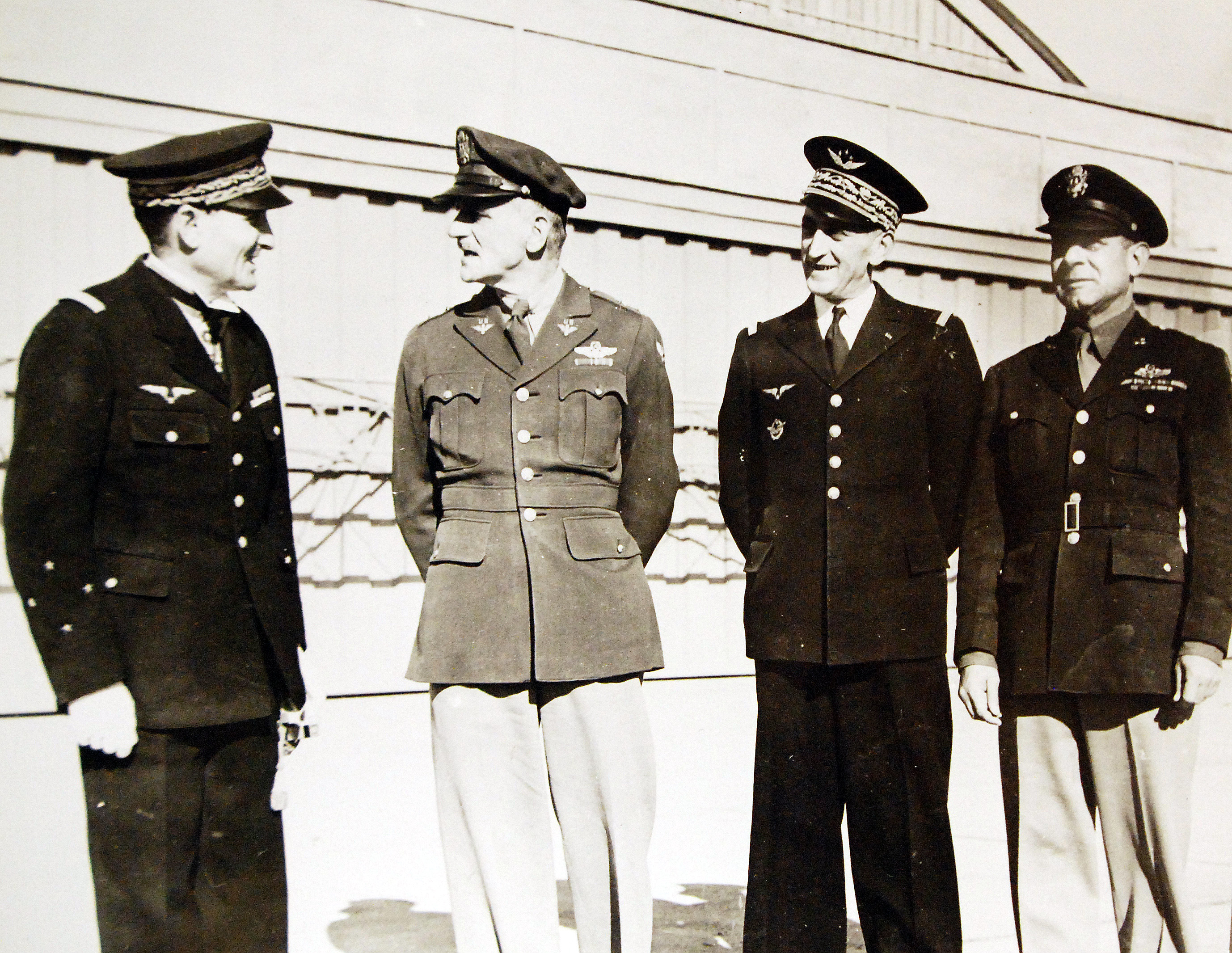 Lot 11588-39: North African Campaign. Presiding American and French officers who delivered dand received 13 P-40 “Warhawk” aircraft. Left to right: Lieutenant General Mendigal, Commander I Chief of the French Air Forces in Africa; Major General Carl Spaatz, Commander of the Allied Air Forces in North Africa; Major General Bergeret, Assistant French High Commissioner, and Major General James Doolittle, Commander of U.S. Air Forces, 1943. Office of War Information Photograph, 985-ZC. (2016/02/11).